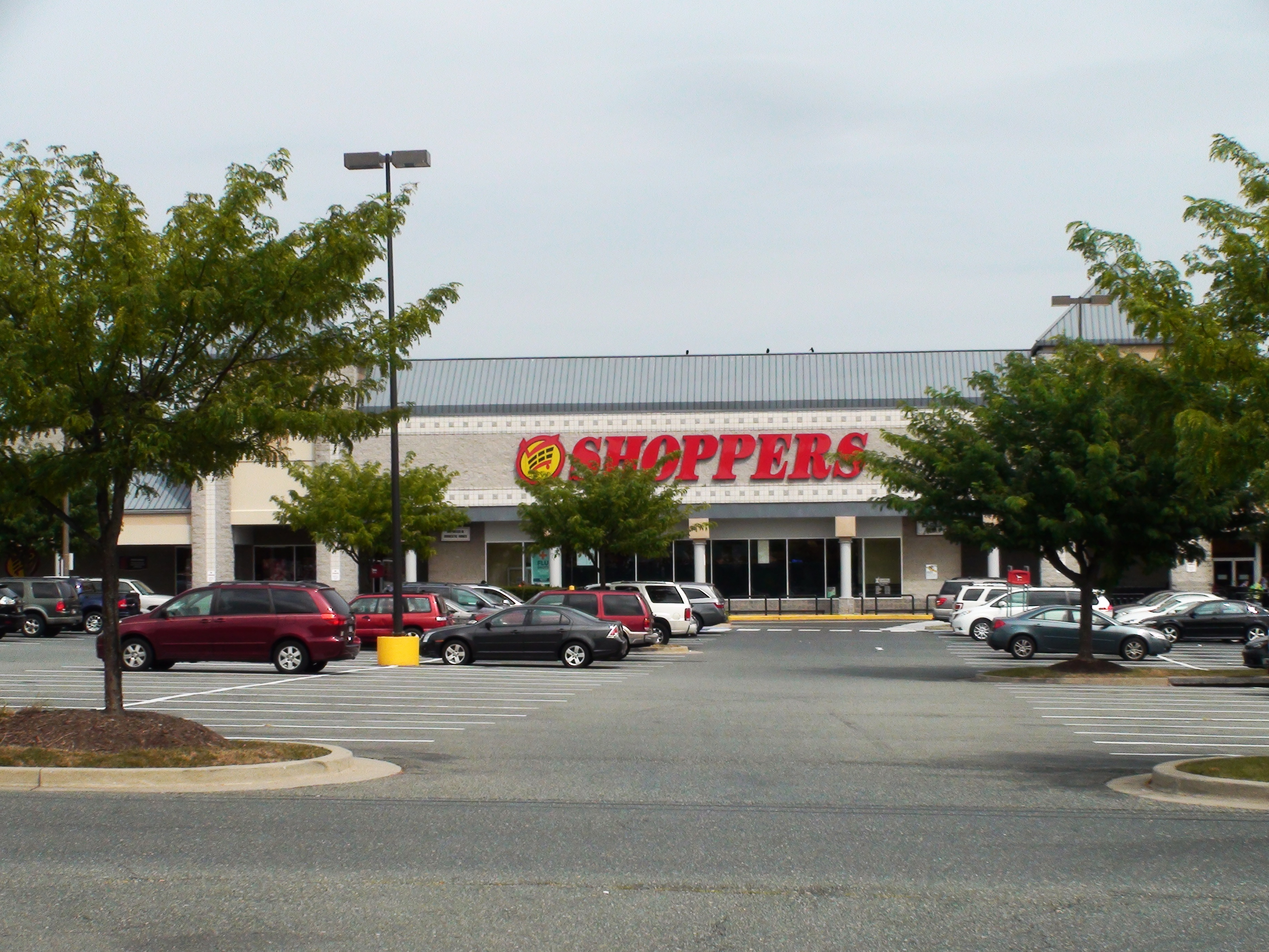 A Shoppers Food & Pharmacy store in Germantown, Montgomery County, Maryland, at 1:59 p.m. (EDT) on September 9, 2013. Photograph taken on September 9, 2013, in Germantown, Maryland, with a Sony HDR-SR11 camcorder, by Illegitimate Barrister.